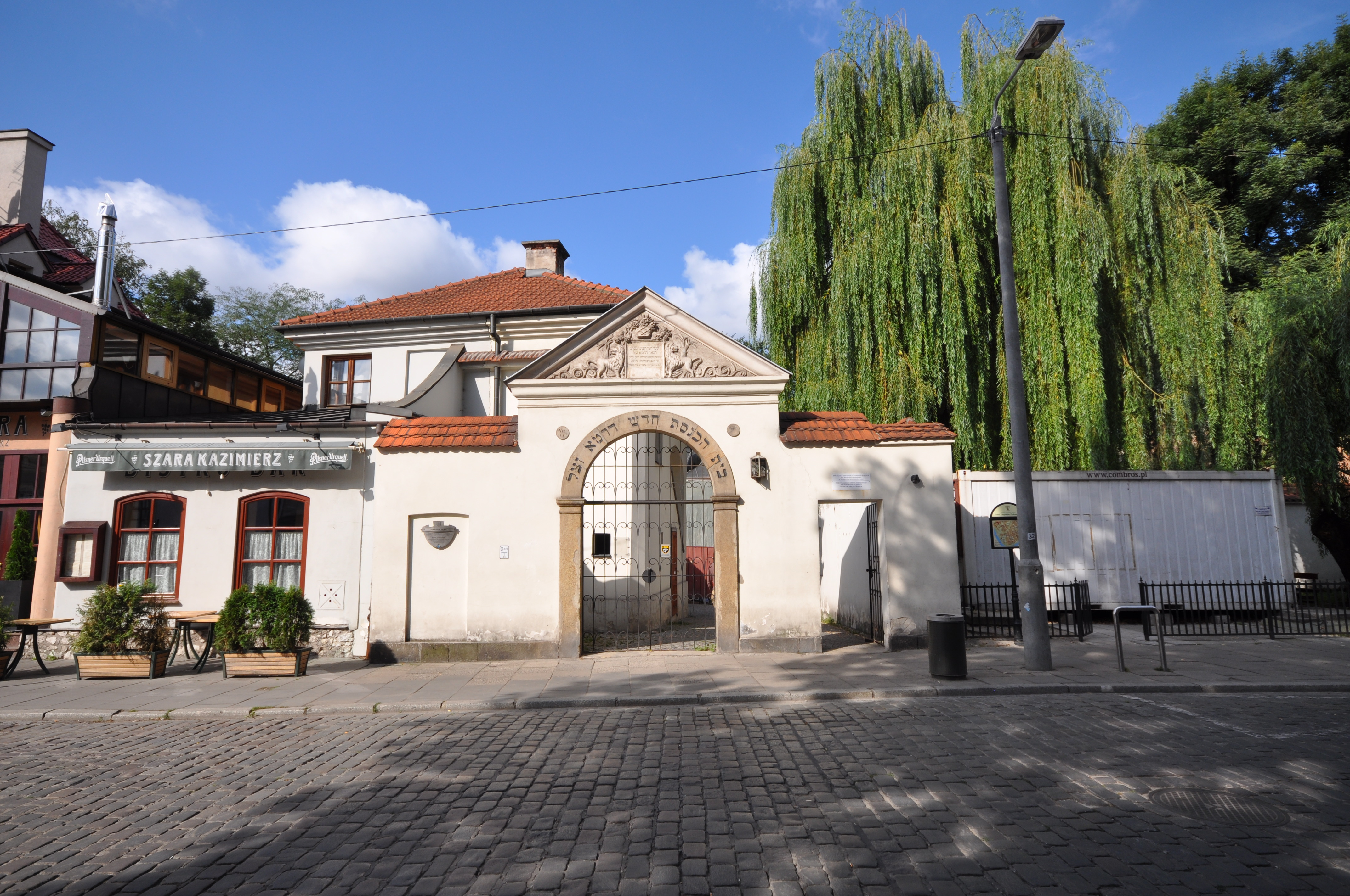 The Remuh Synagogue, (Polish: Synagoga Remuh), is named after Rabbi Moses Isserles c.1525–1572, known by the Hebrew acronym ReMA, רמ״א, (pronounced ReMU) who's famed for writing a collection of commentaries and additions that complement Rabbi Yosef Karo's Shulchan Aruch, with Ashkenazi traditions and customs. Remuh Synagogue is the smallest of all historic synagogues of the Kazimierz district of Kraków. It is currently the only active synagogue in the city